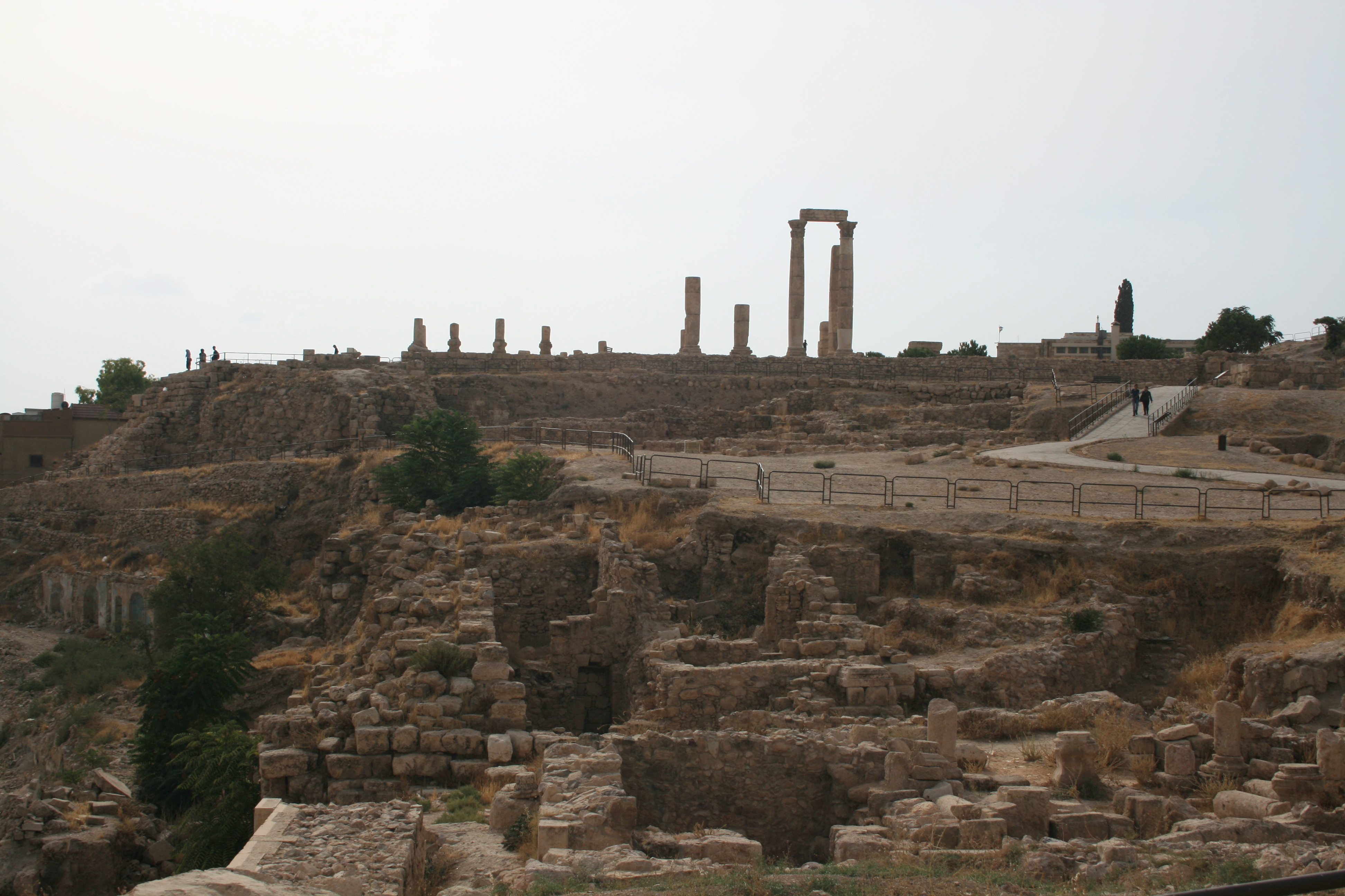 View of the Amman Citadel, Jordan